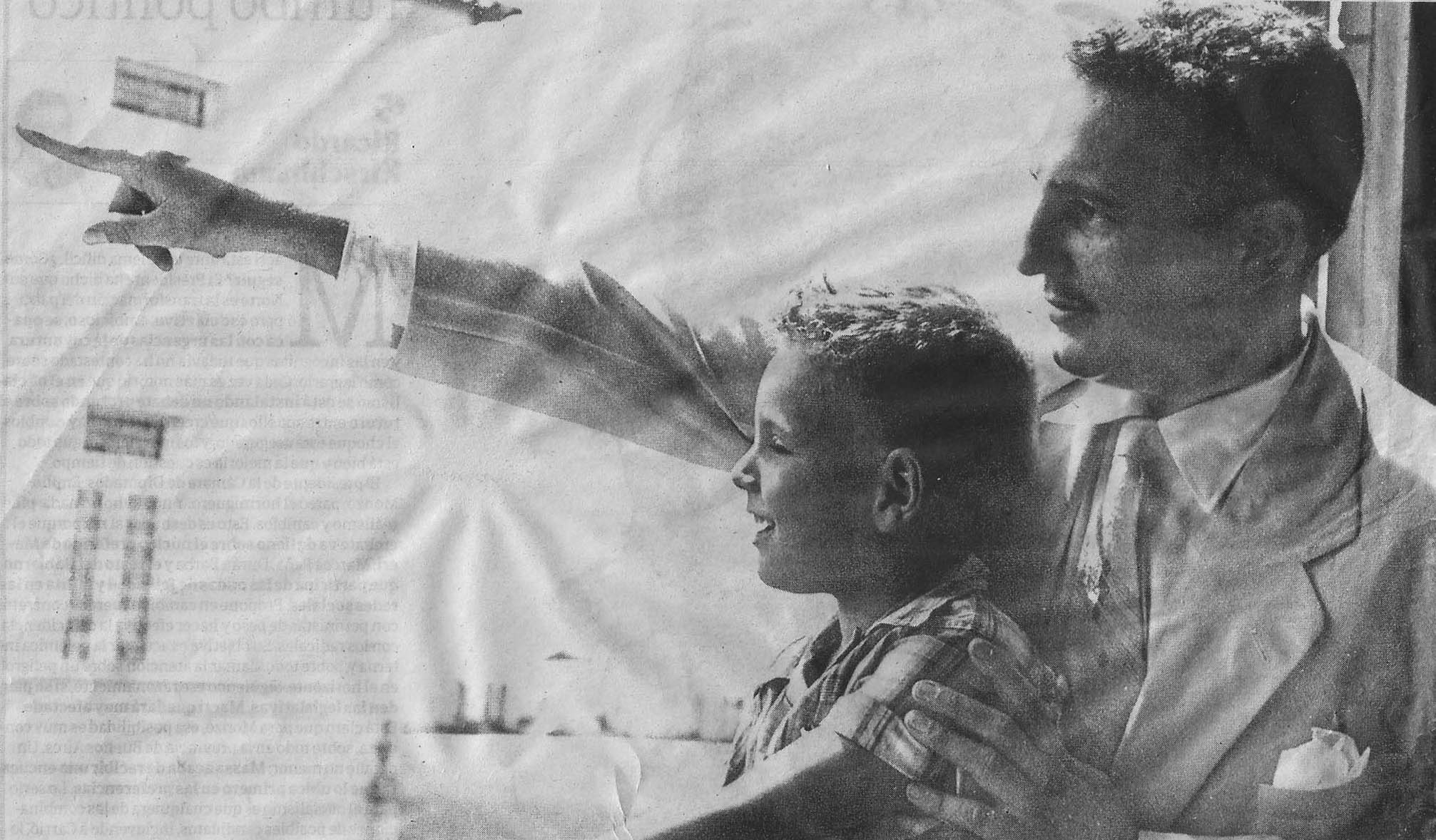 A very young Fidel Castro with his son Angel in Cuba